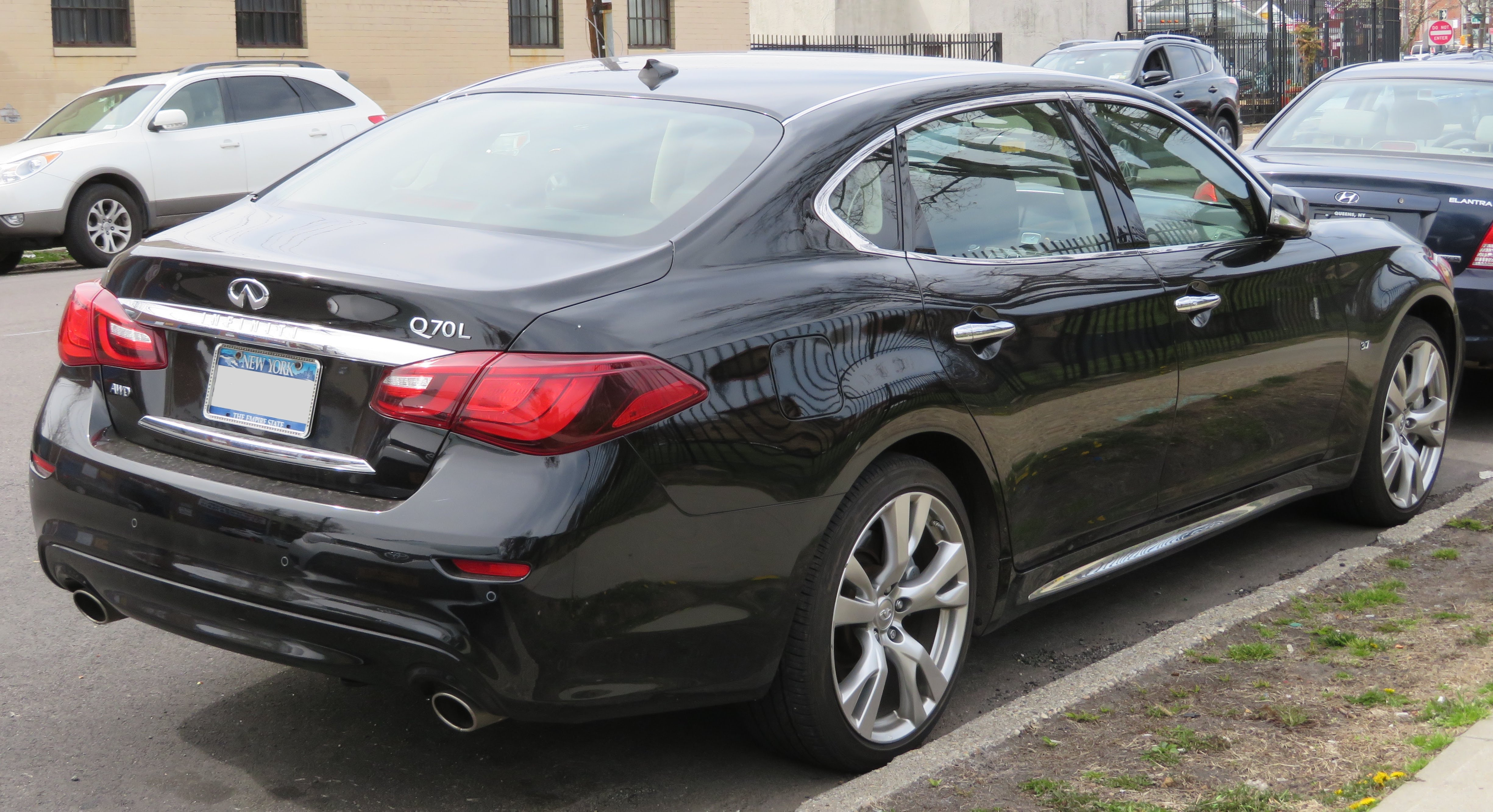 Around a Hyundai Repair Station, in Queens, New York